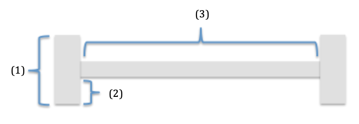 This diagram represents a standard coin with a coin edge (1), a coin rim (2) and the main area of a coin where the legend and main image is (3)